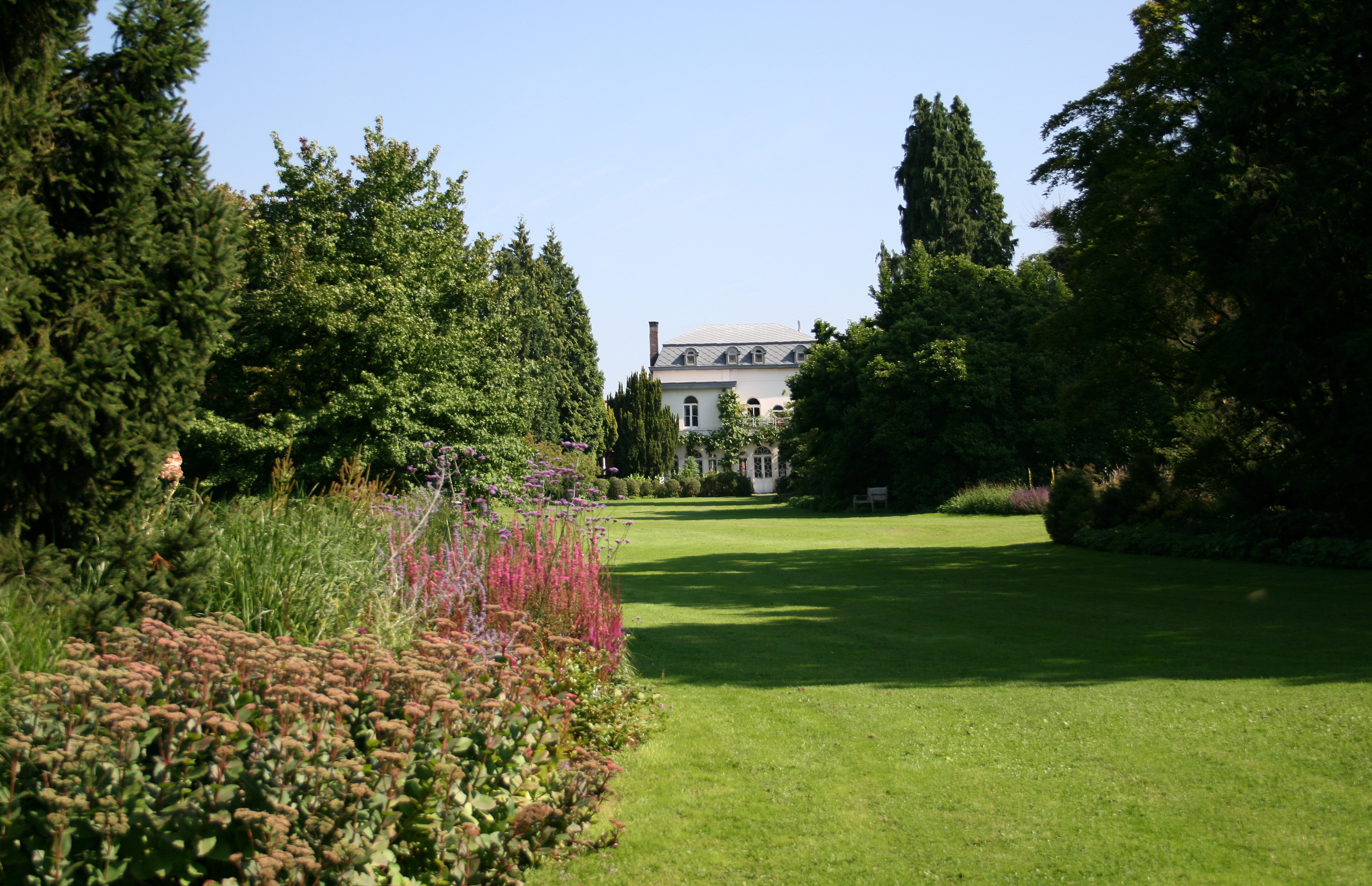 Kalmthout (Belgium), the Arboretum Kalmthout and the Vangeertenhof.